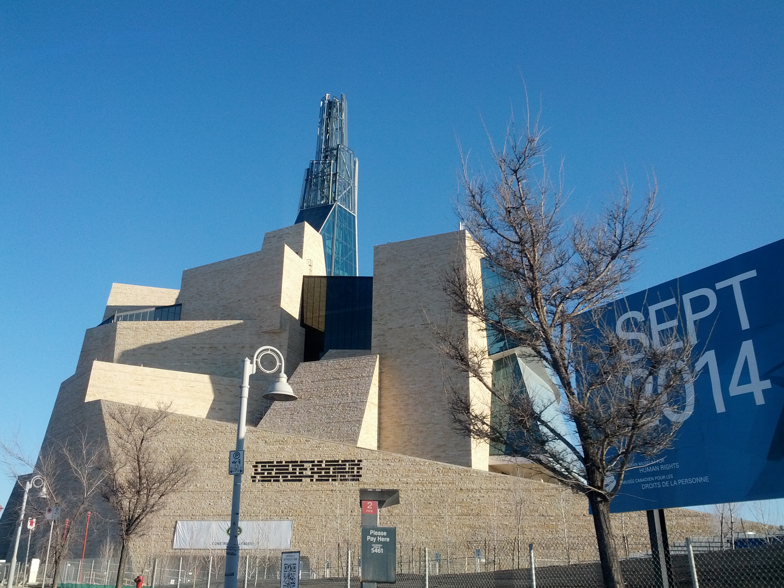 Canadian Museum for Human Rights, April 2014, showing sign with expected opening date. Seen from intersection of Provencher blvd and Israel Asper way